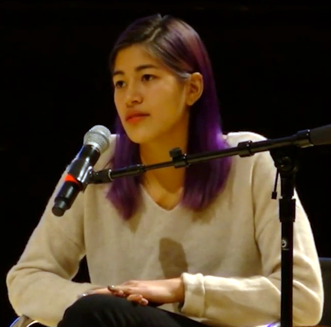 Emma Sulkowicz discusses Mattress Performance (Carry That Weight) with Roberta Smith, New York Times art critic, at the Elizabeth A. Sackler Center for Feminist Art, Brooklyn Museum.